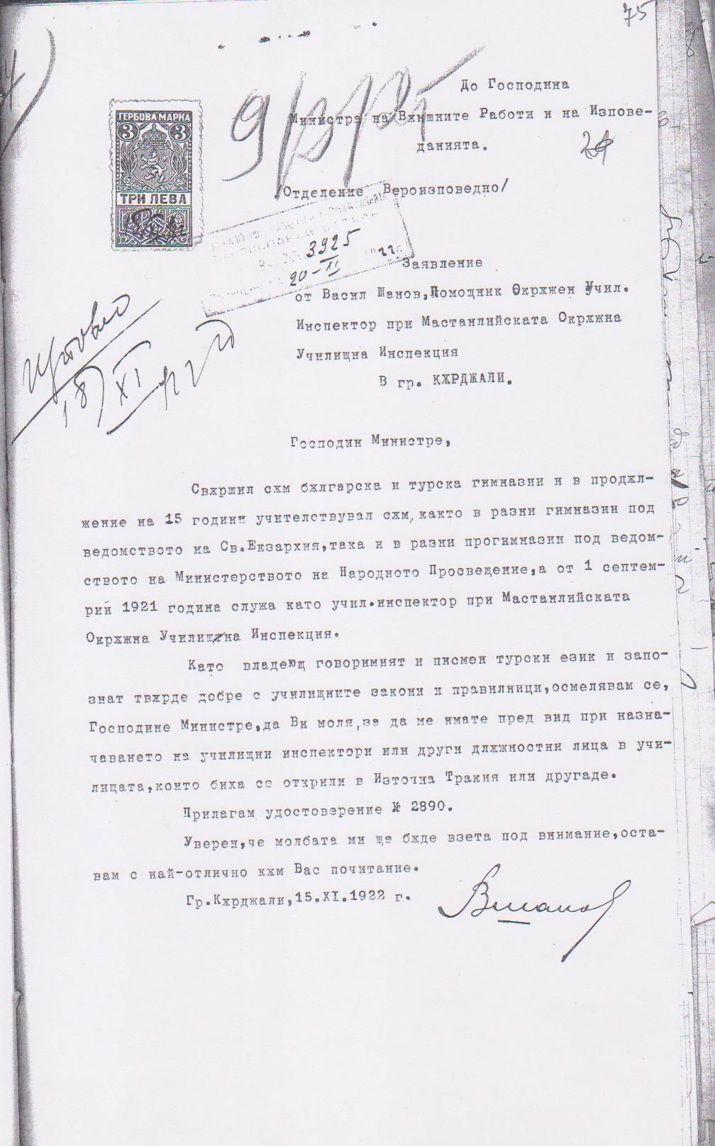 Request of Vasil Shanov to the Bulgarian Minister of Foreign Affairs to be appointed as a Bulgarian teacher in Turkey. Request of Vasil Shanov to the Bulgarian Minister of Foreign Affairs to be appointed as a Bulgarian teacher in Turkey